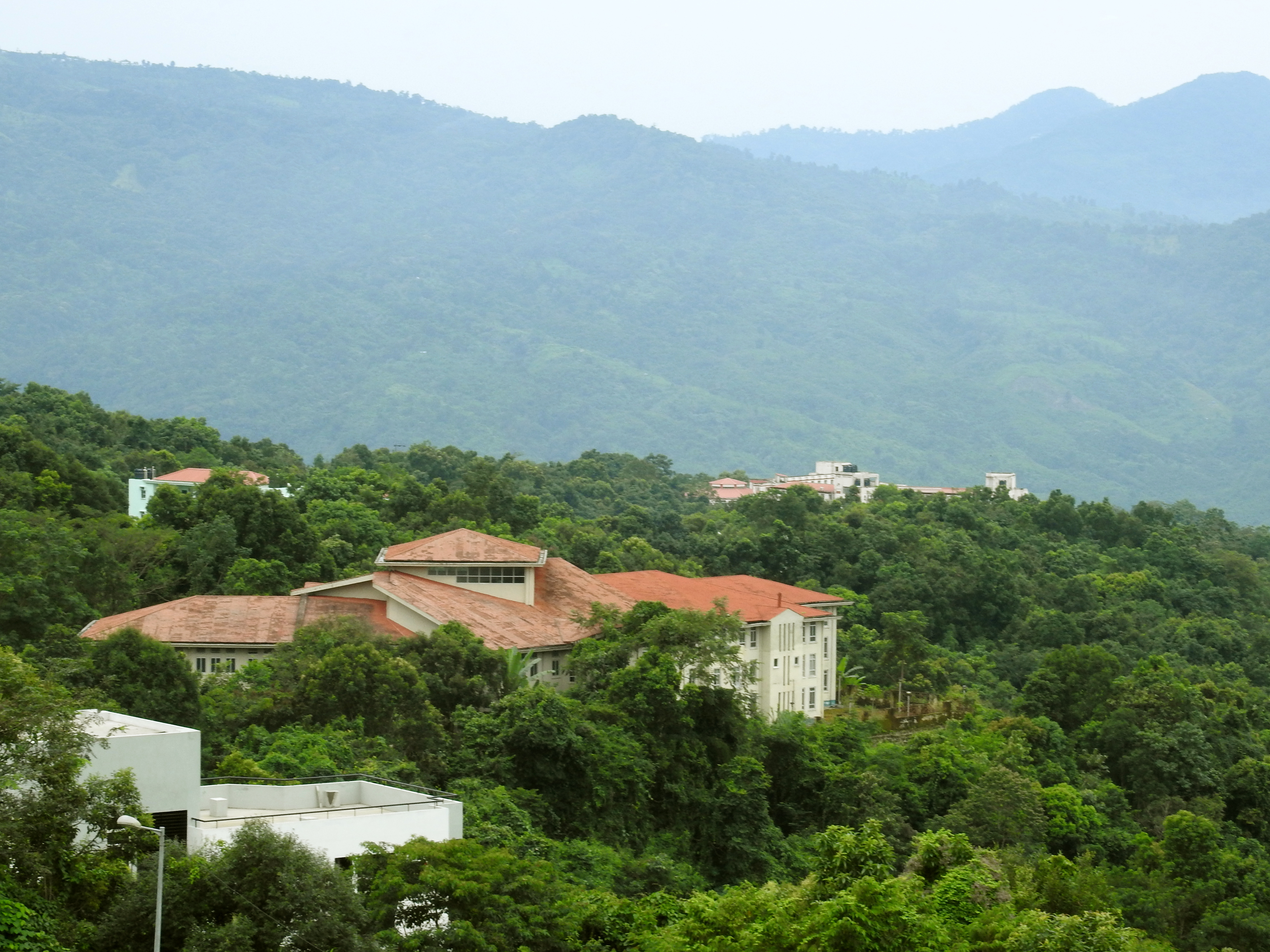 View of Mizoram University campus buildings and surrounding forest, Tanhril, Aizawl, Mizoram